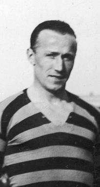 WladyslawKrol